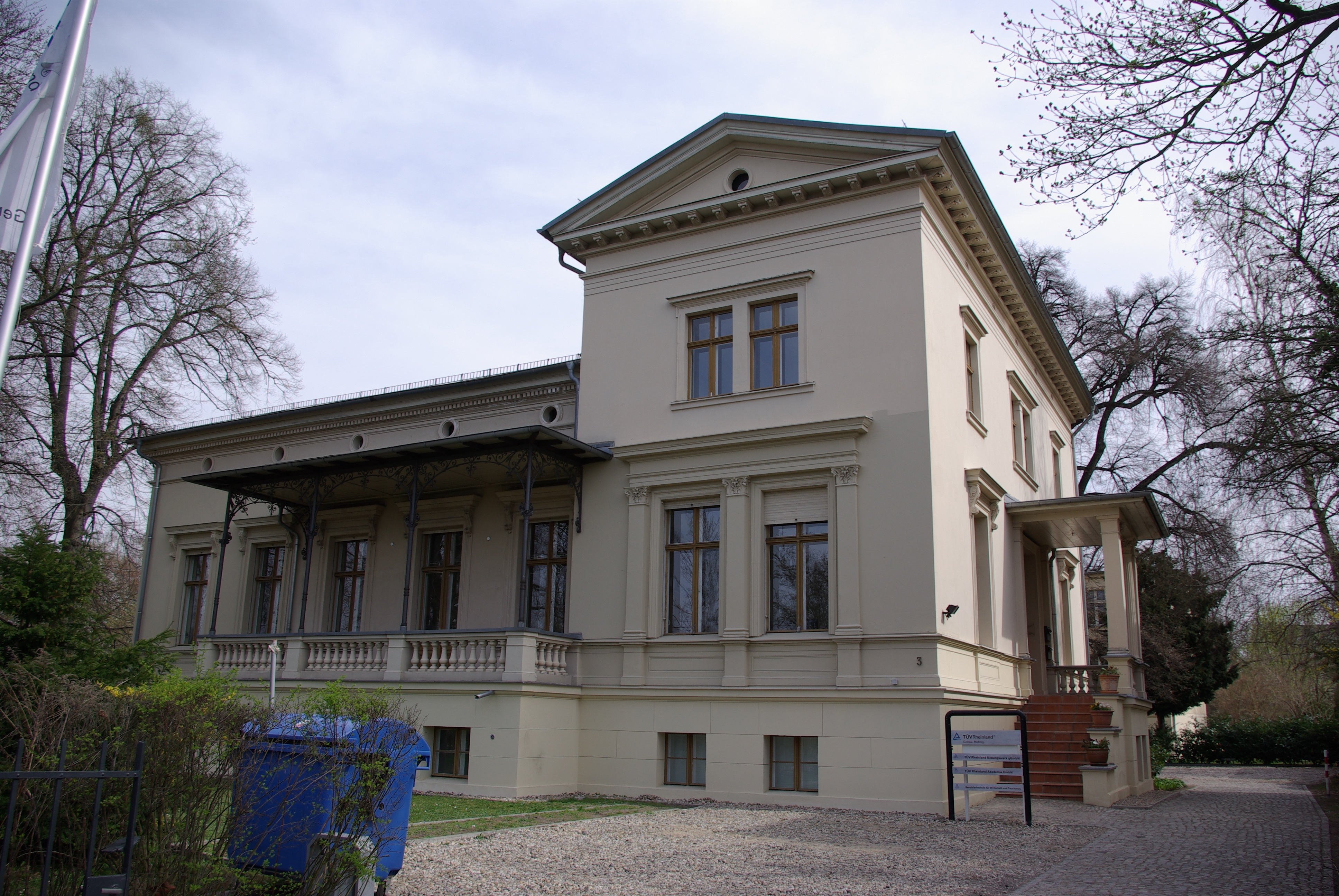 Potsdam in Germany. The house Puschkinallee 3 is a listed building.